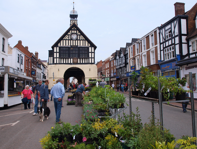 Bridgnorth - Old Market Hall The view is on the High Street facing North.